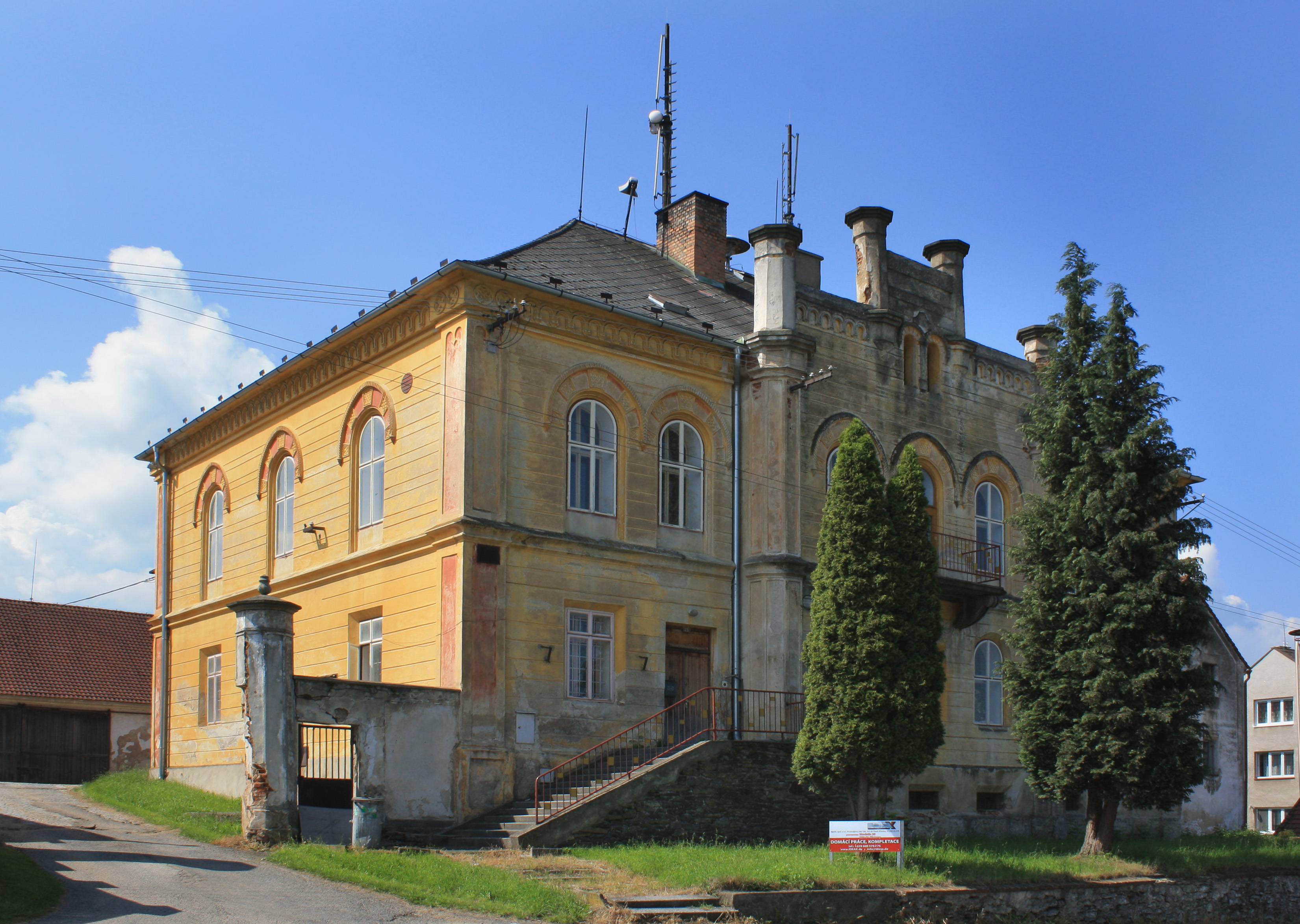 Mochtín castle in Mochtín, Czech Republic